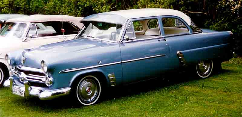 Ford 70B Customline Tudor Sedan 1952